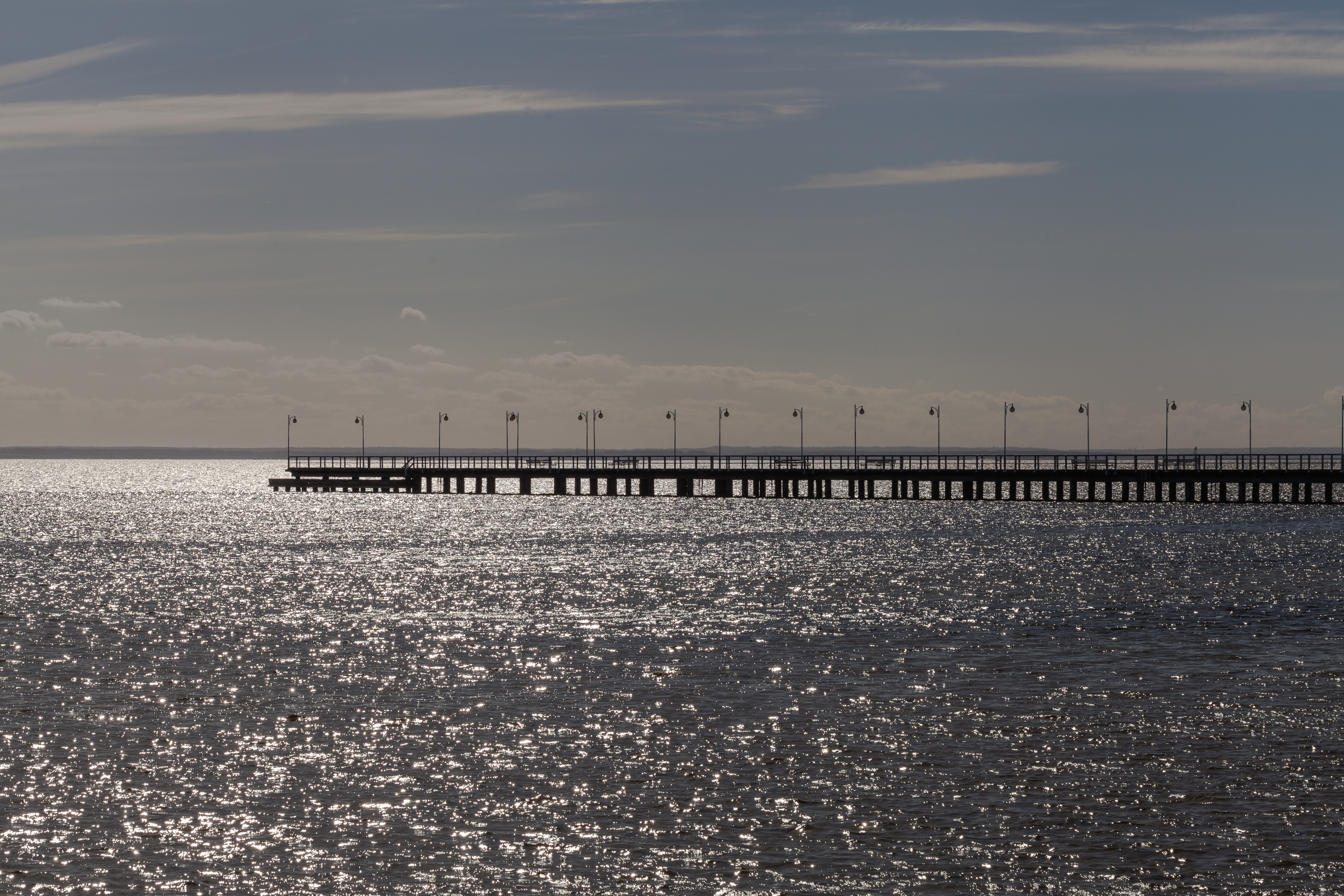 Promenade pier of Jurata, Hel Peninsula, Poland